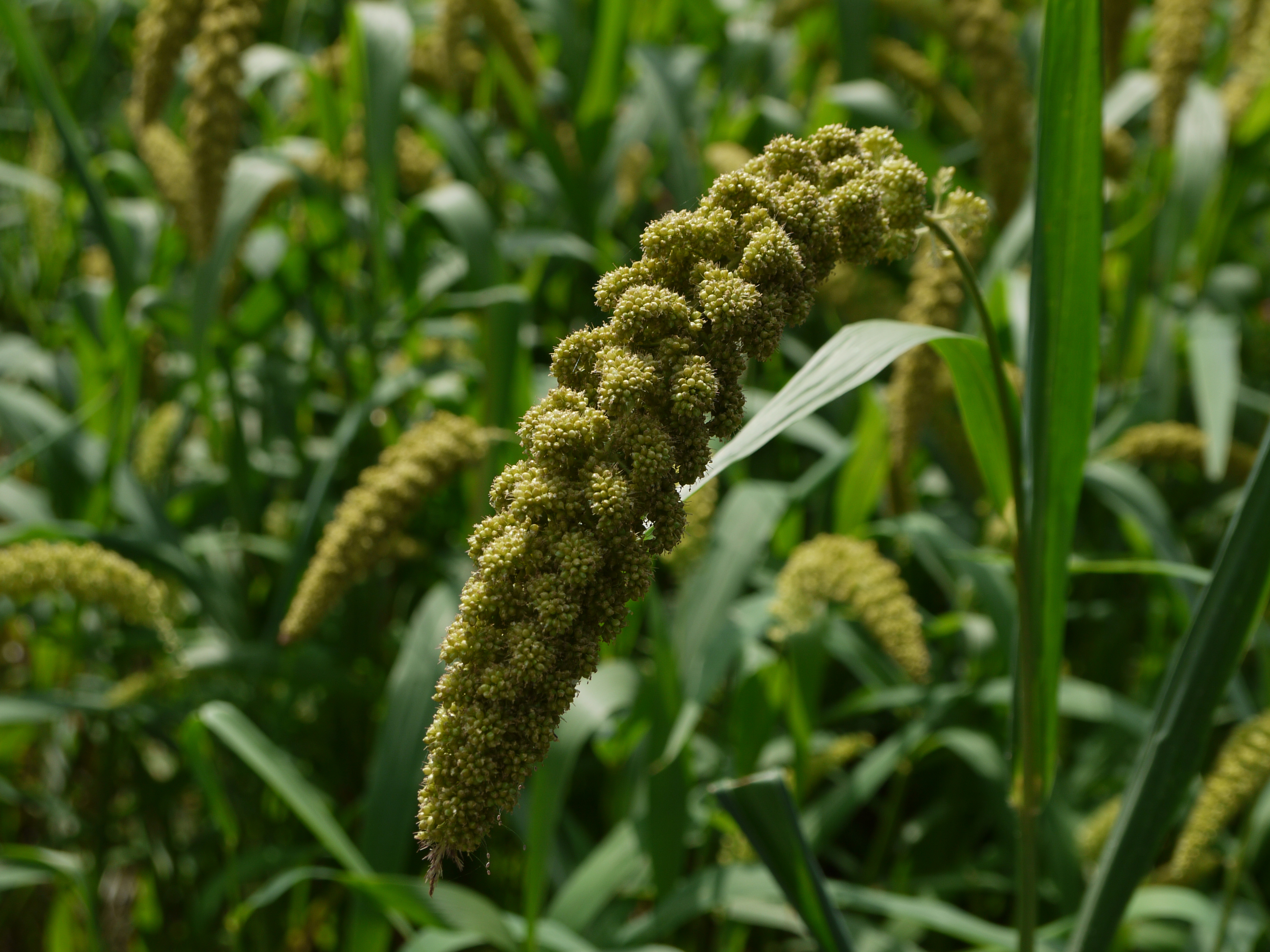 Japanese Foxtail millet 02.